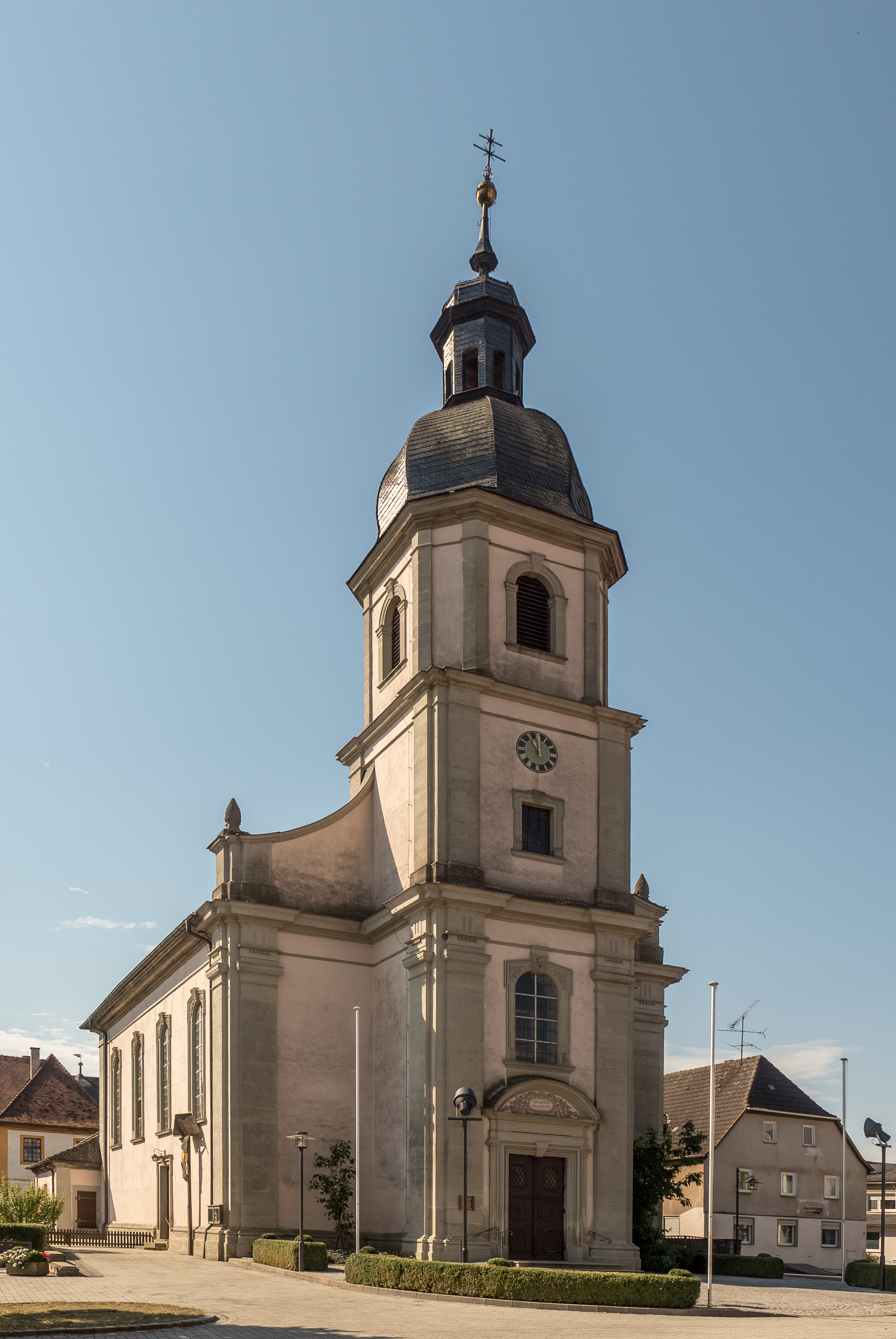 Catholic Parish Church of St. Peter Trinity and St. Laurentius in Bundorf